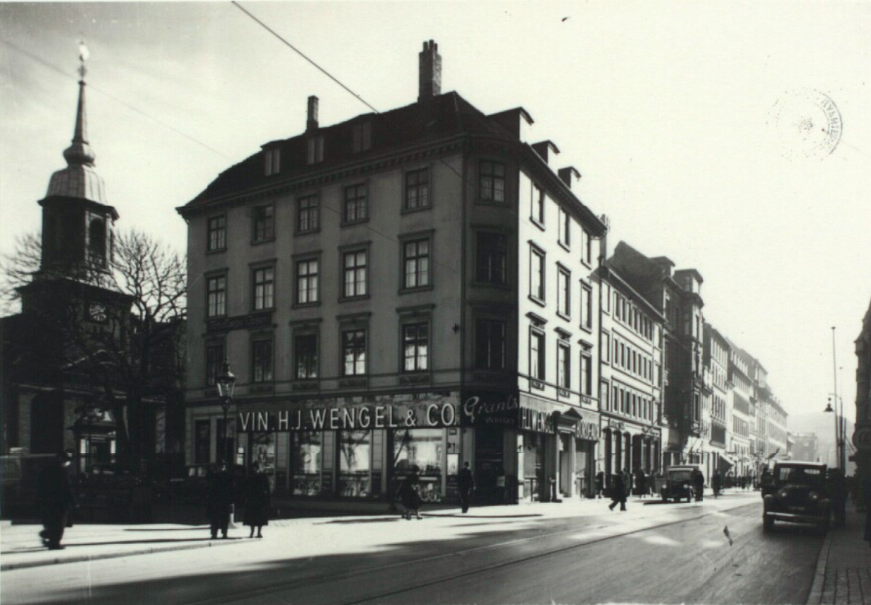 Bredgade 24(Sankt Annæ Plads 2 in Copenhagen